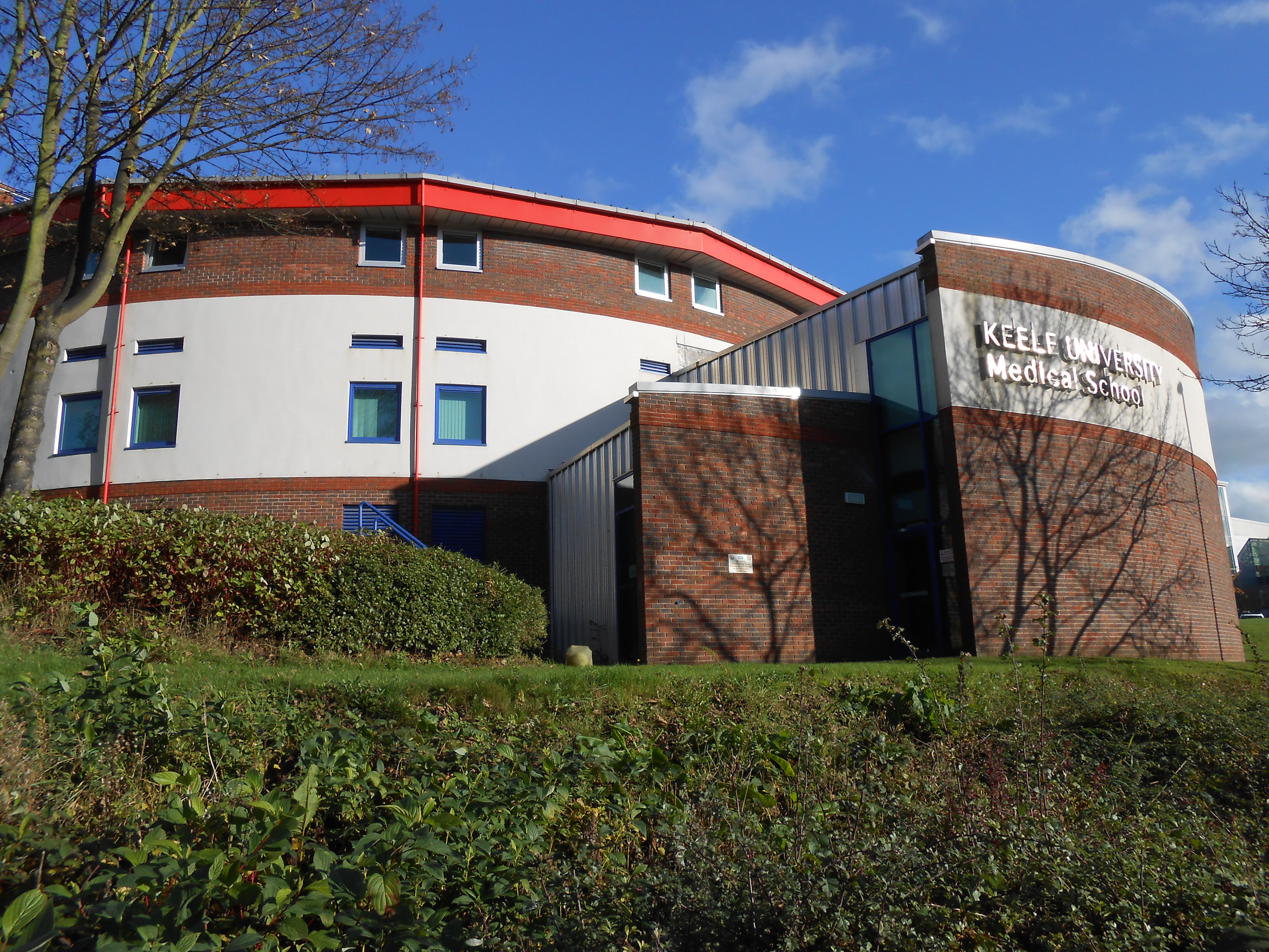 Keele University Medical School, Newcastle Road, Stoke-on-Trent, England.